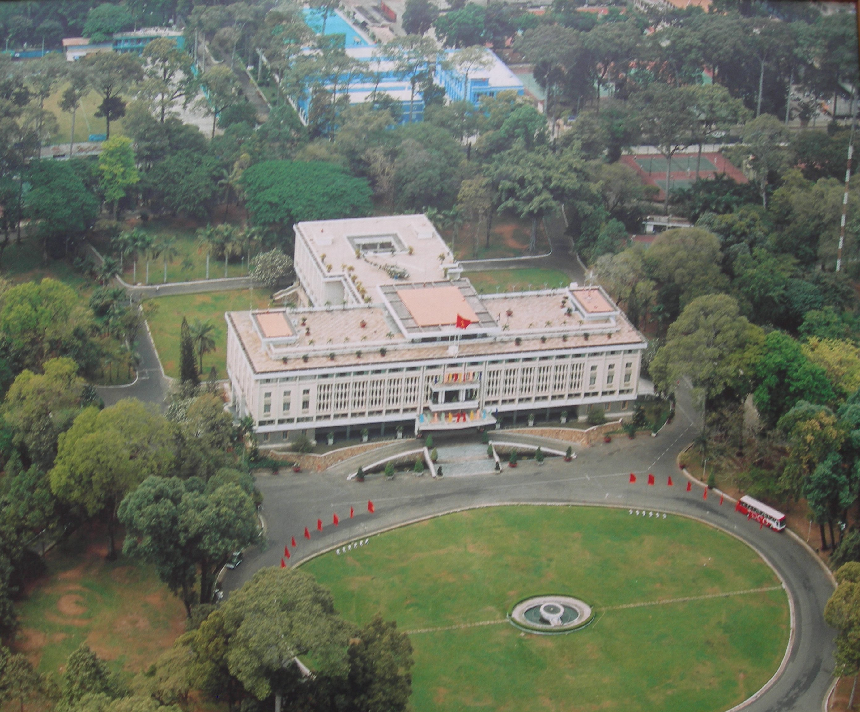 Reunification Palace from above.